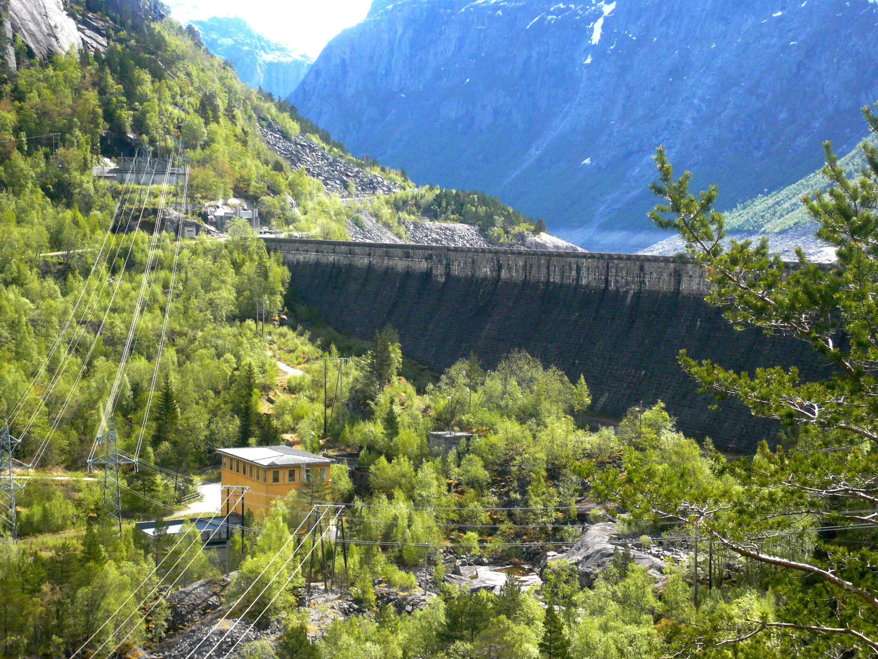 Ringedalsdammen